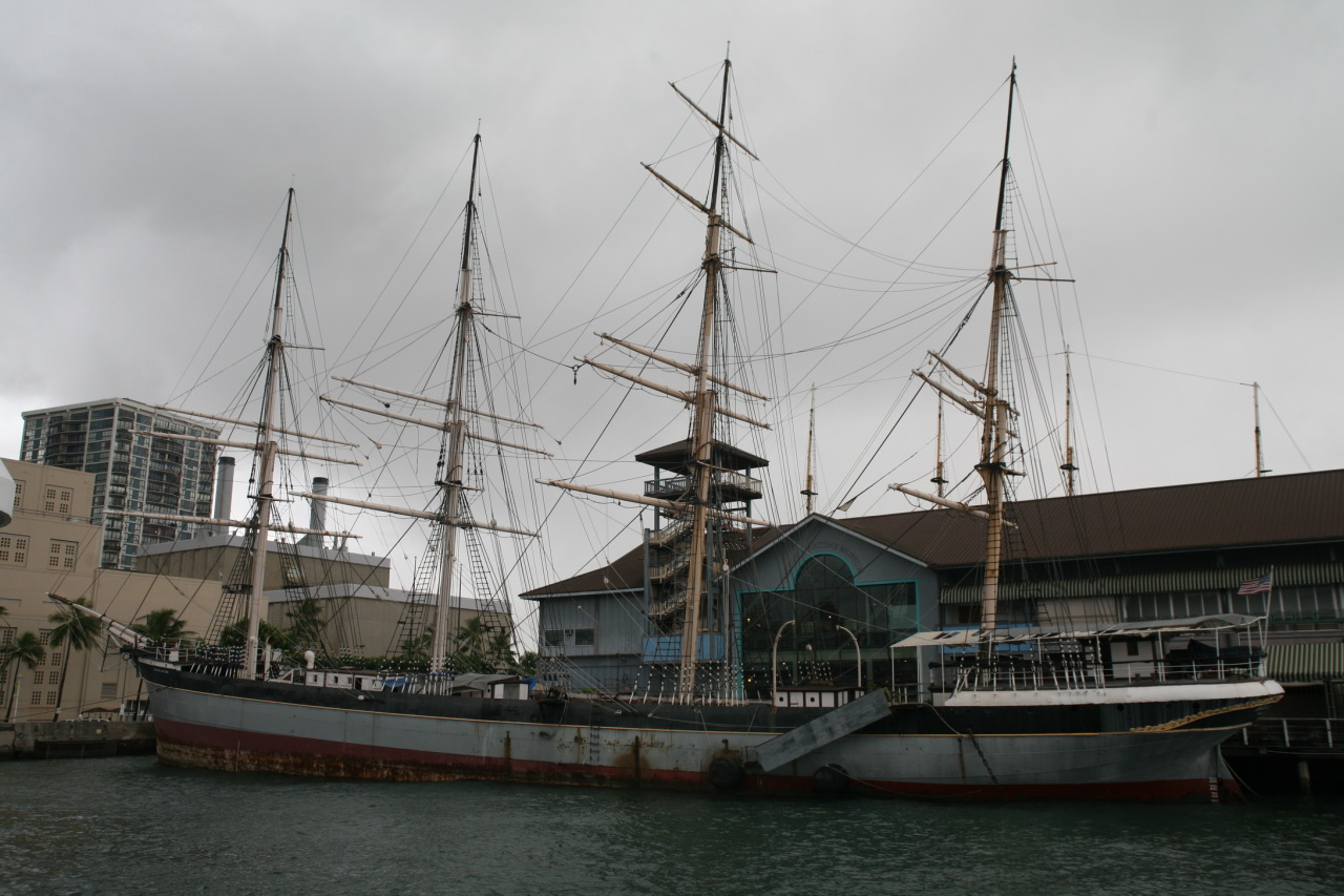 An image of the iron-hulled fully-rigged oil tanker, the sailing ship "Falls of Clyde", an American vessel built in 1878.